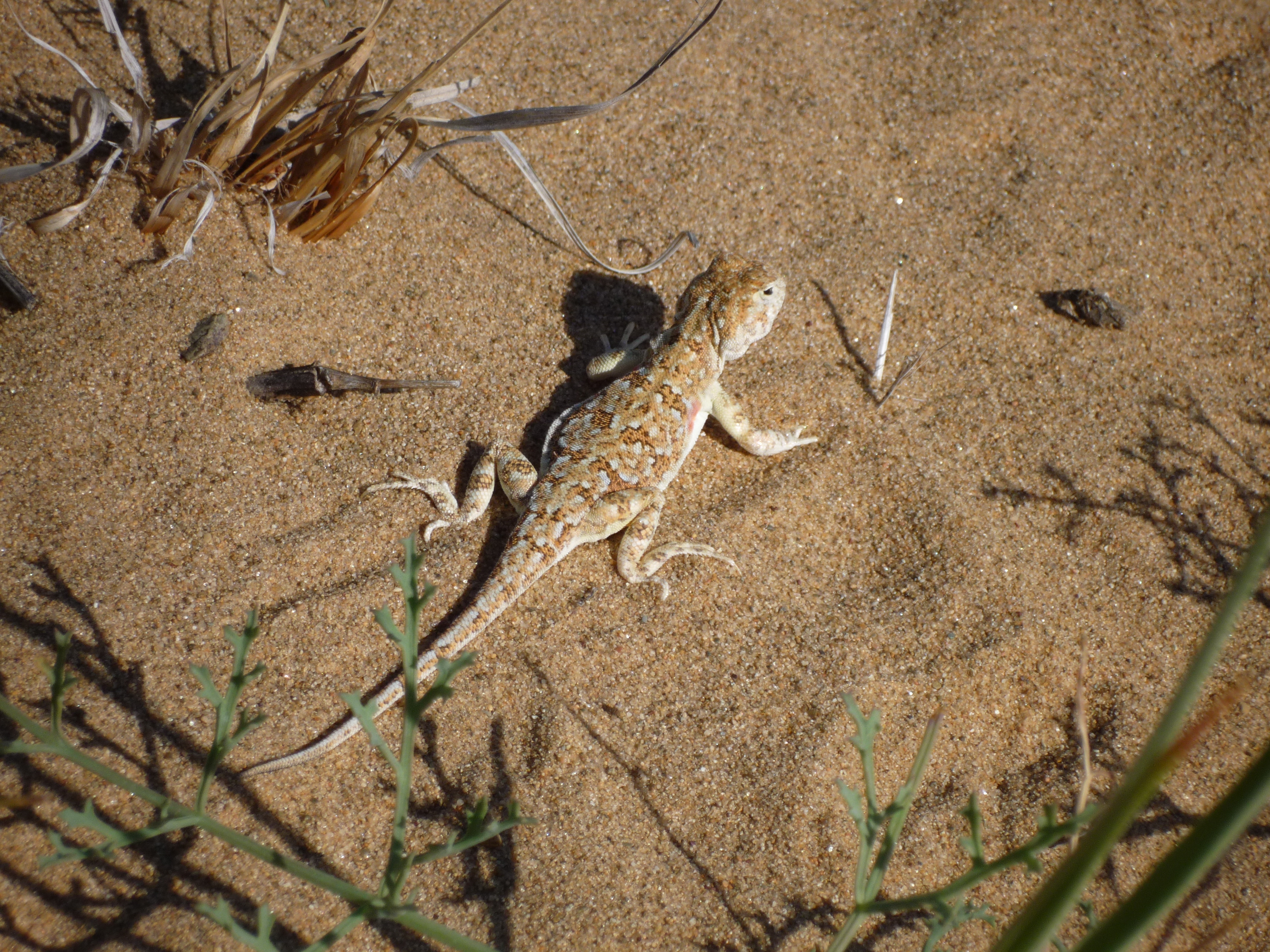 Phrynocephalus versicolor Strauch, 1876 in Bayan-Önjüül sum of Töv Province, Central Mongolia